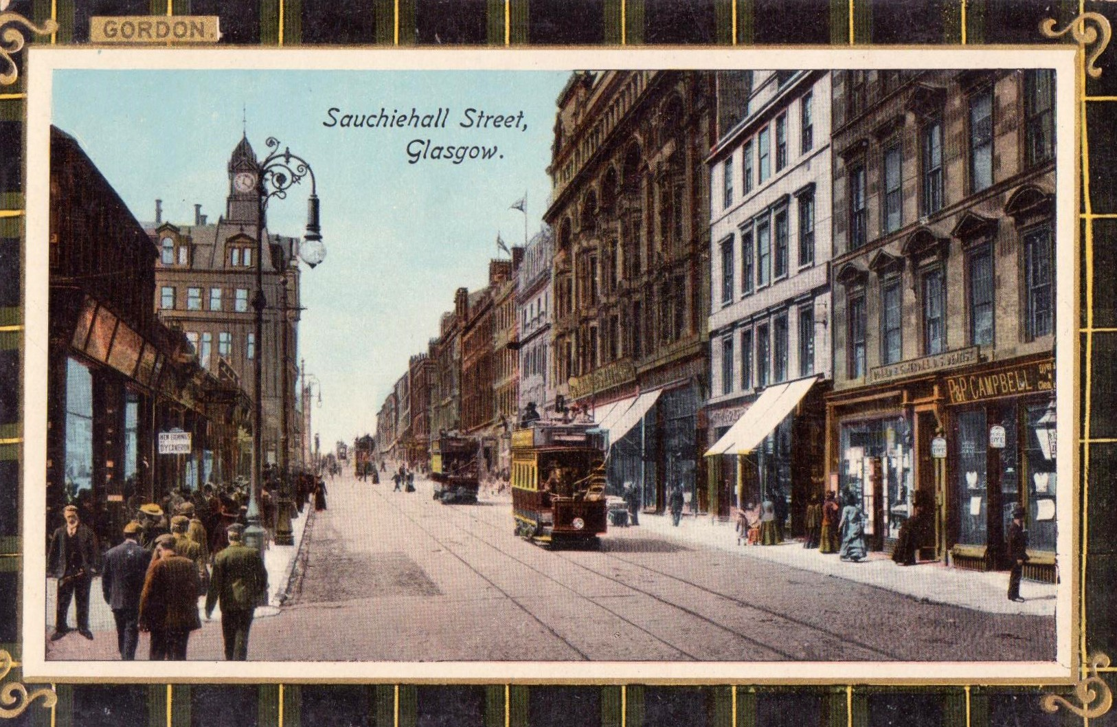 Glasgow. Sauchiehall Street. Postcard, circa 1910. Publisher: Philco Publishing Co. London.